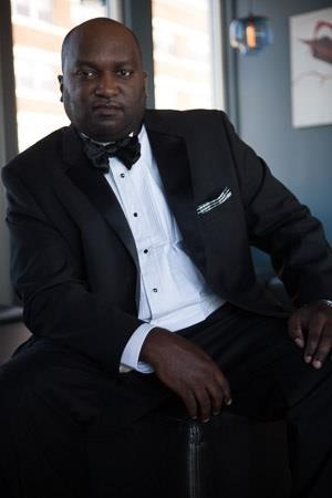 Mr. Lee Multi Platinum Producer